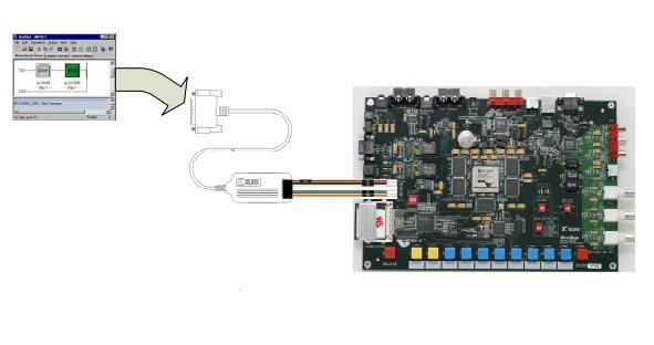 Reconfiguration of FPGA